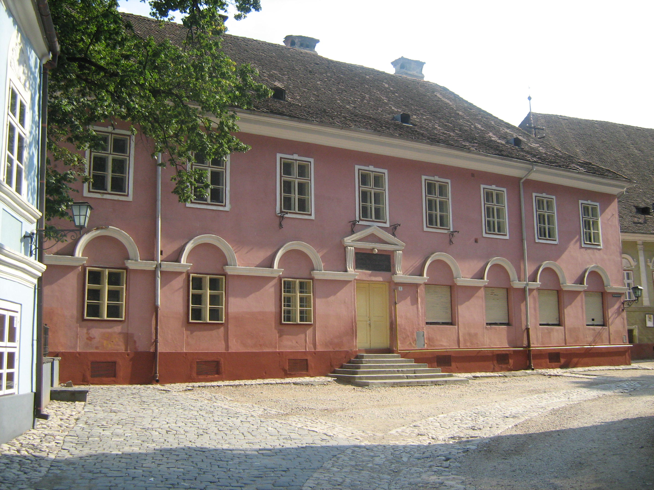 Building A of the Johannes Honterus School in Brașov.